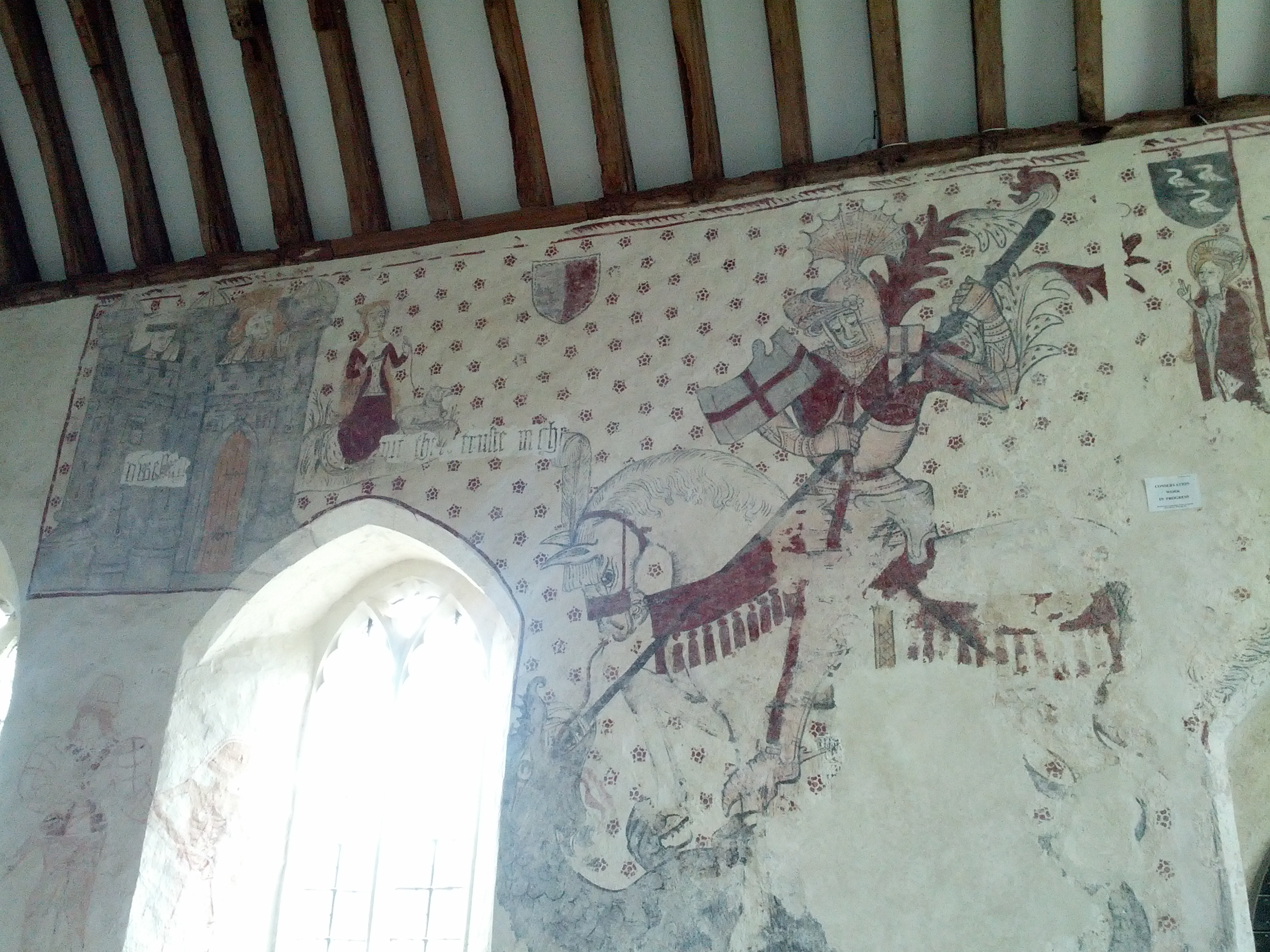 Mediaeval wall paintings, Llancarfan church, Wales